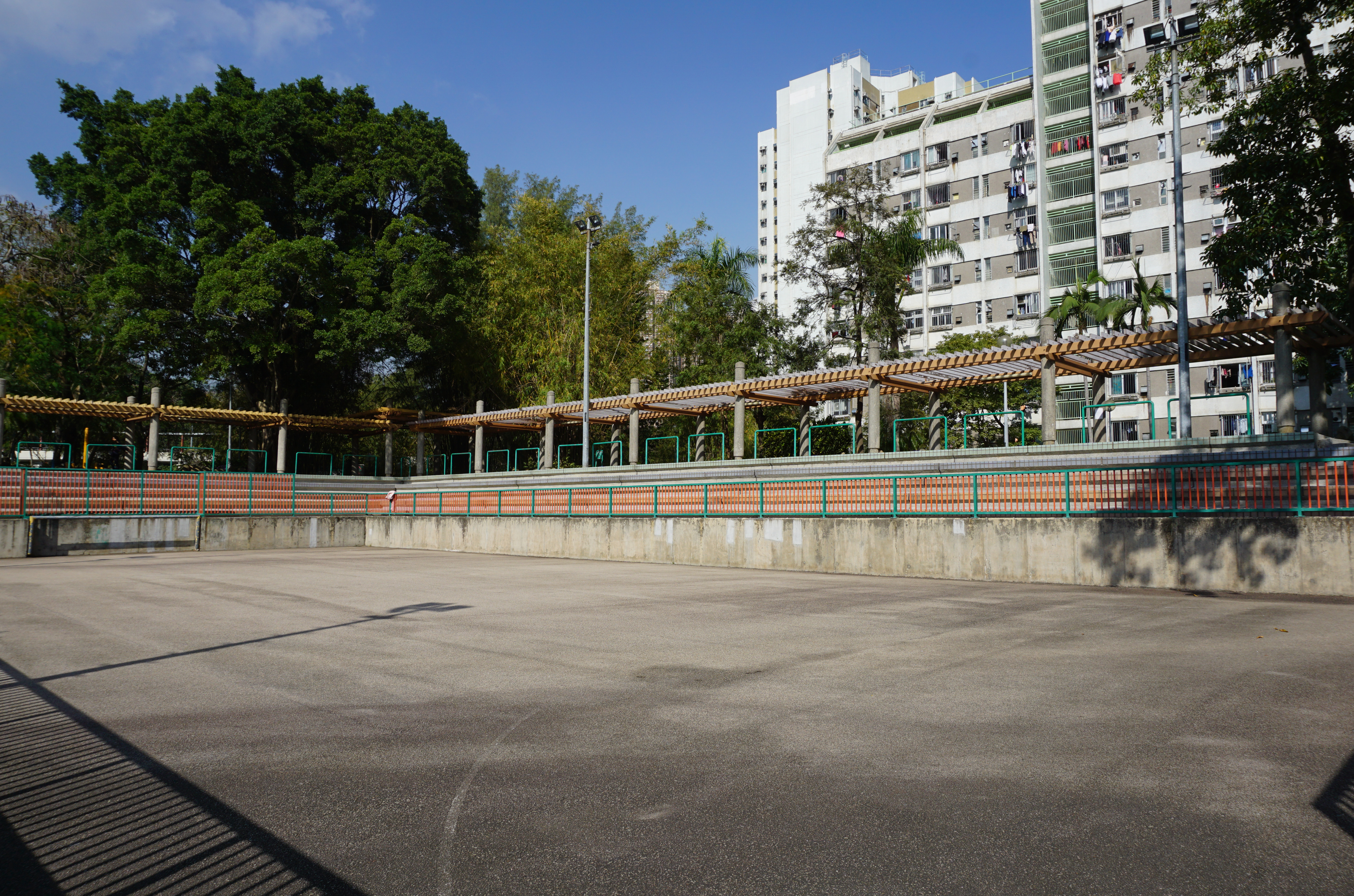 Butterfly Estate in Tuen Mun, Hong Kong.